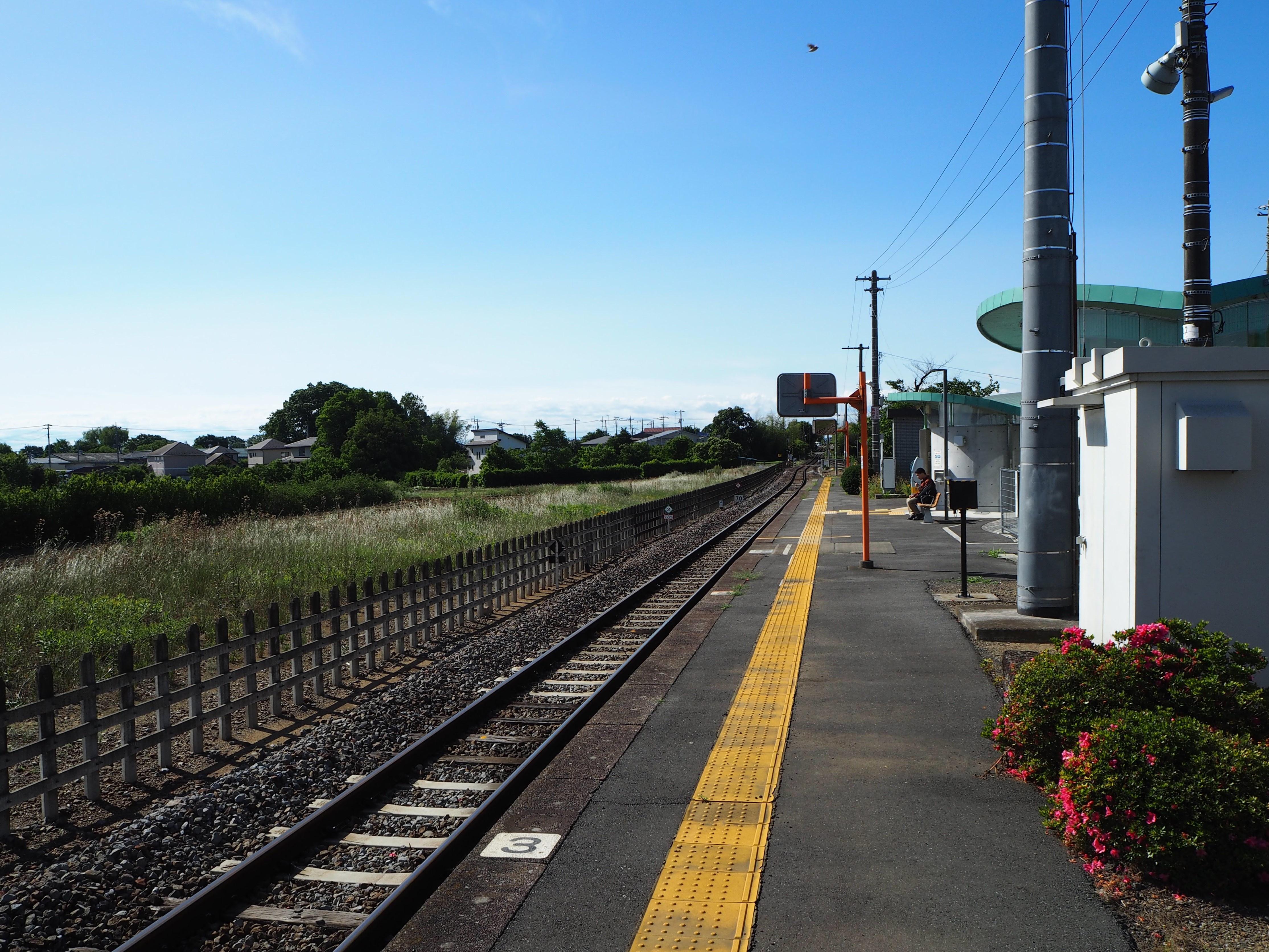 Platform of Yōdo Station